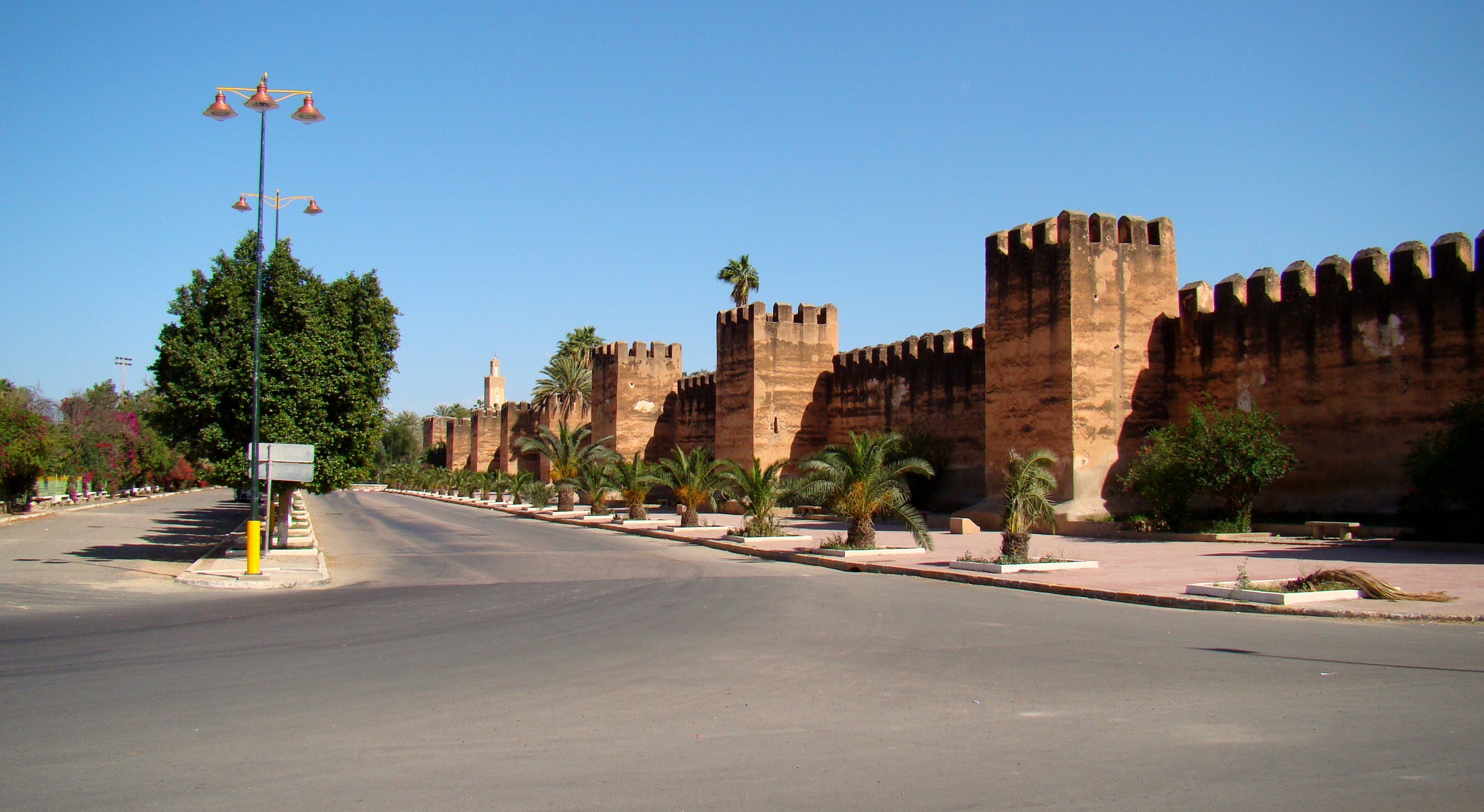 The city ramparts of Taroudant in the heart of the Souss valley in Morocco.